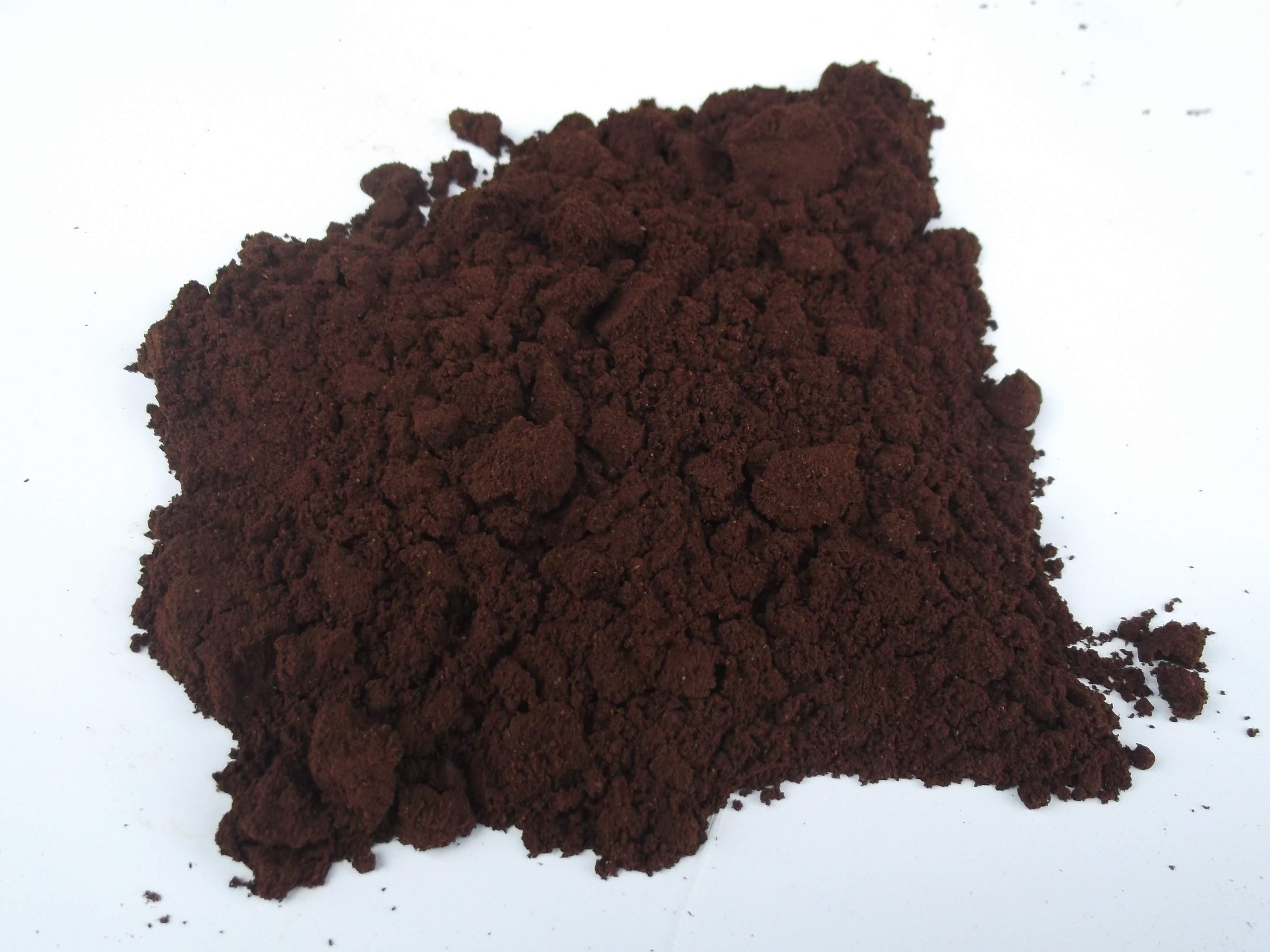 Rosted seeds to prepared as coffee powder.